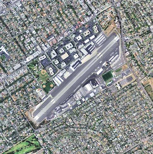 USGS digital orthophoto of Santa Monica Airport in California